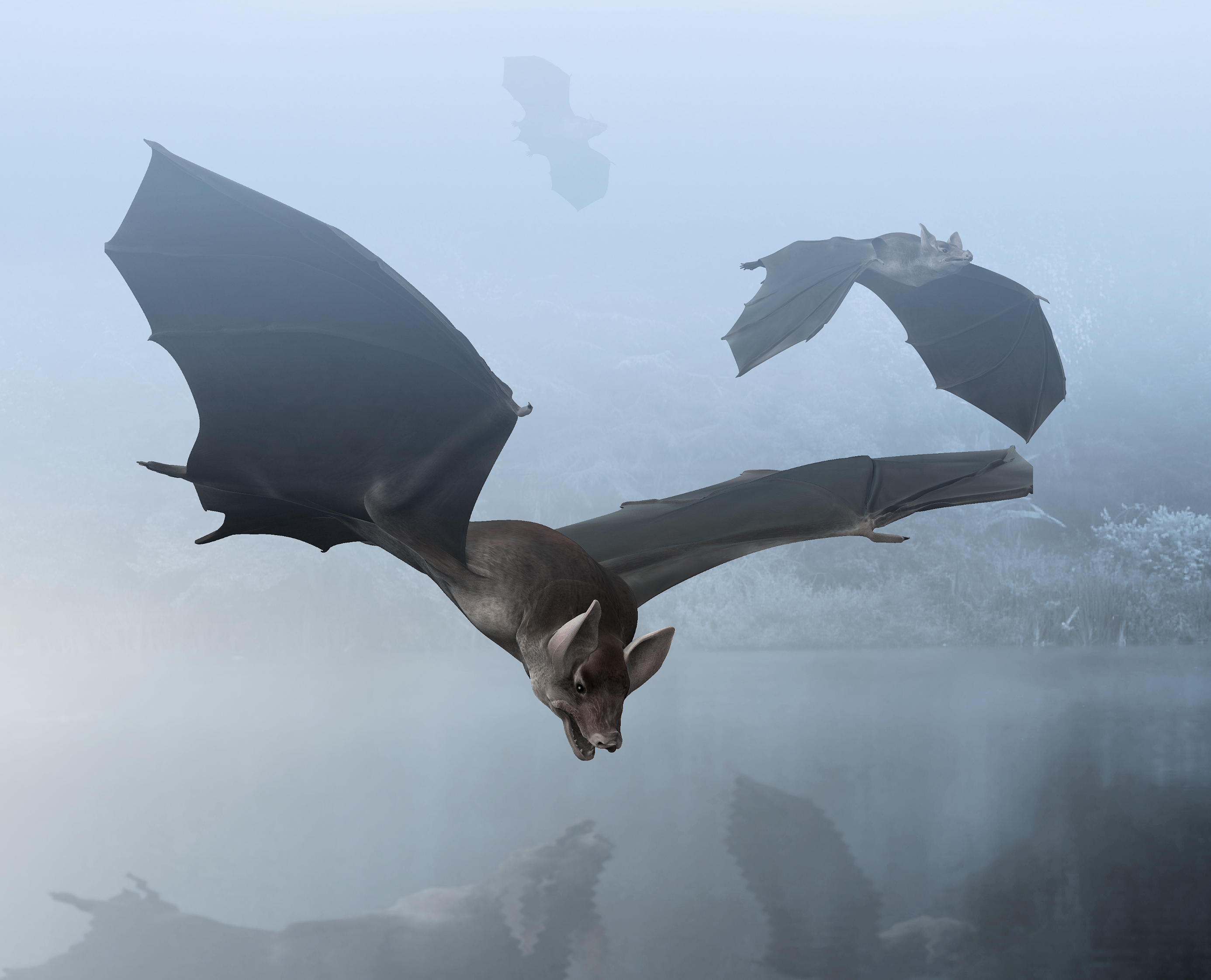 Palaeochiropteryx life reconstruction Corrections and more natural poses from this version: File:Palaeochiropteryx - 3d Reconstruction.jpg